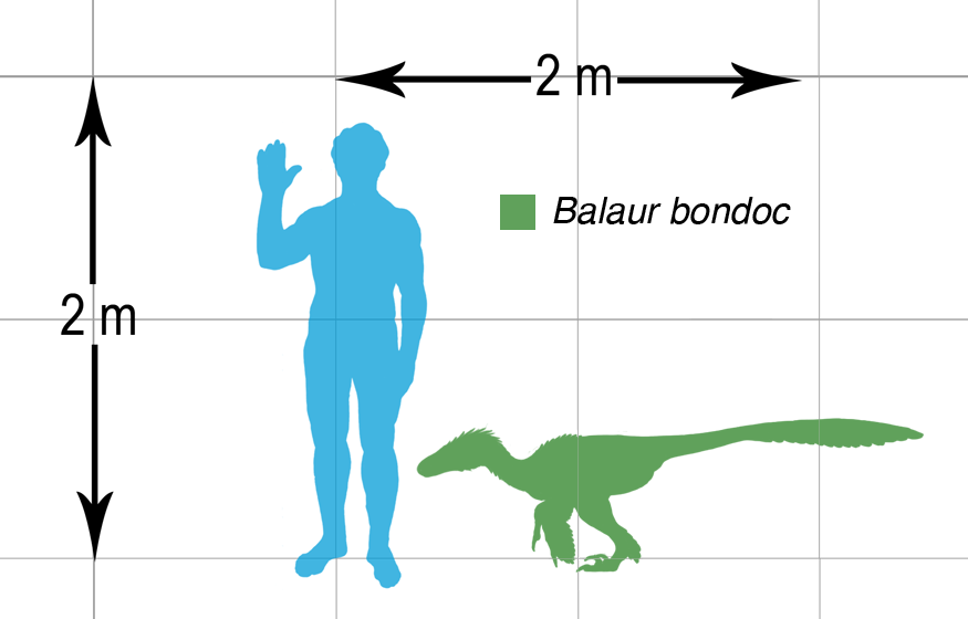 Scale chart of Balaur bondoc in reference to a human. Based on size chart template by Matt Martyniuk.